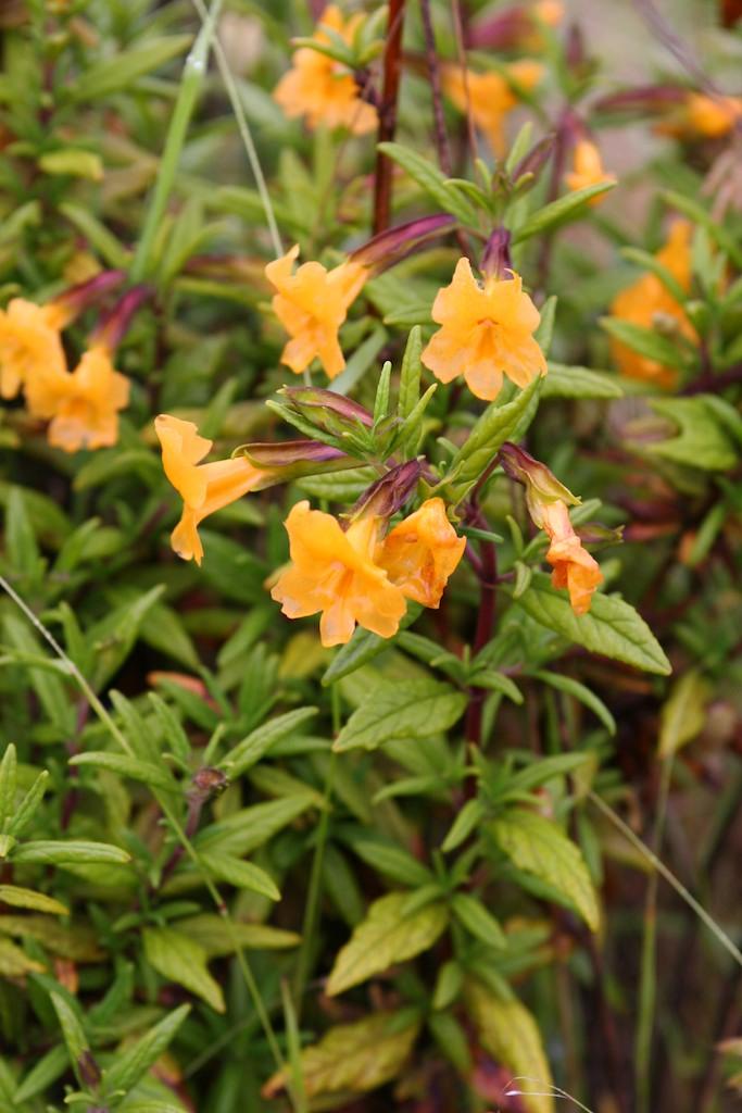 syn. Diplacus aurantiacus.